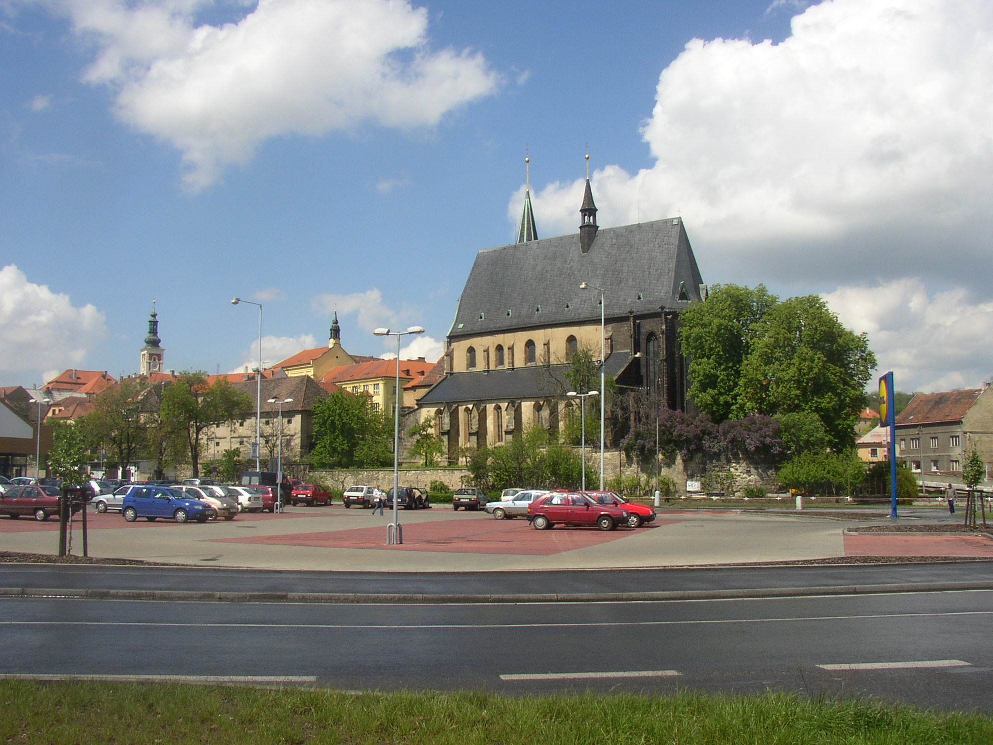 Historical centre of Slaný, Czech Republic with St Gotthard Church as seen from southeast.